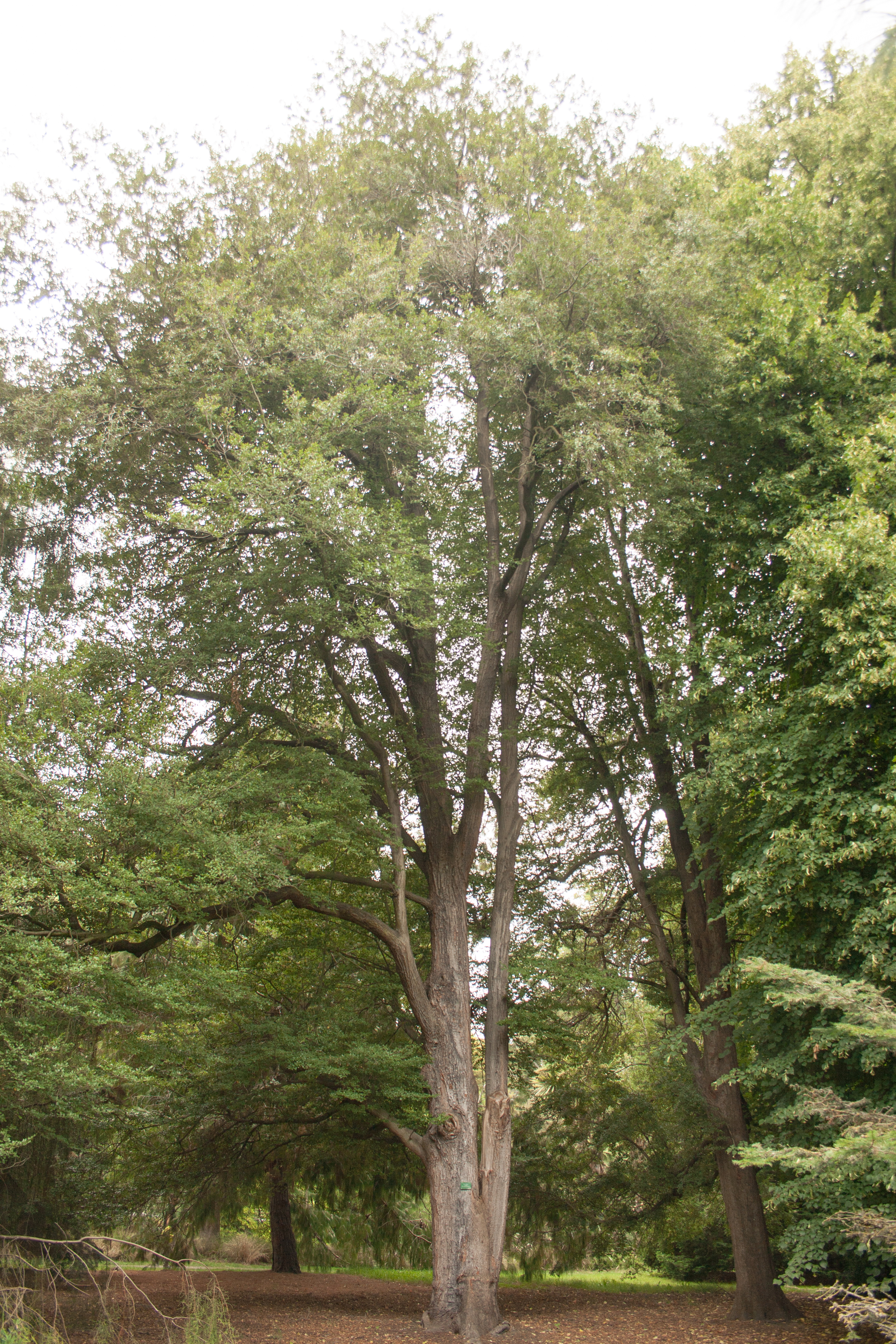 Nothofagus fusca